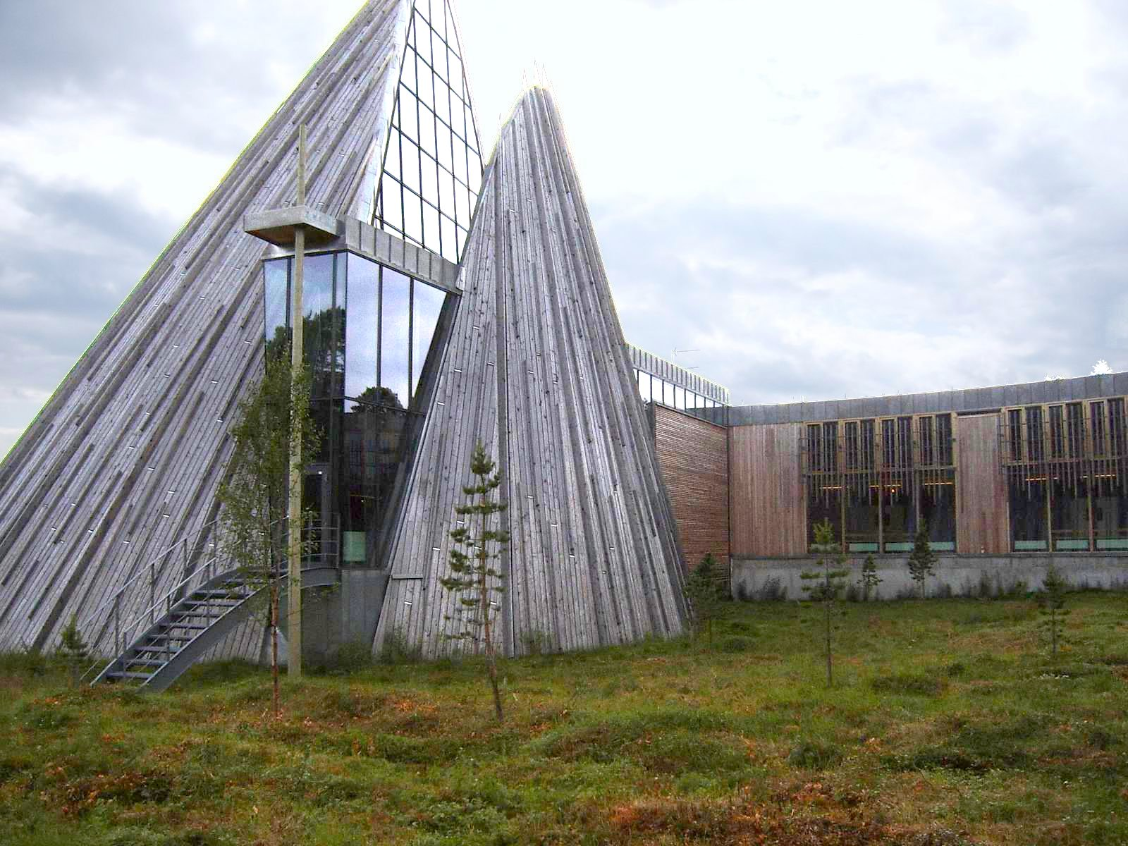 Outside of the Norwegian Sami parliament, samediggi, in Karasjok.